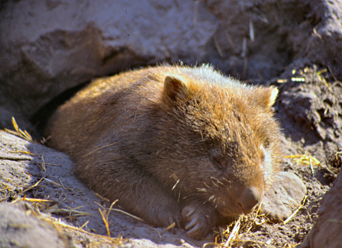 Sleeping Wombat in a private zoo near Melbourne Photographer: Laurenz Bobke, Wiesbaden.